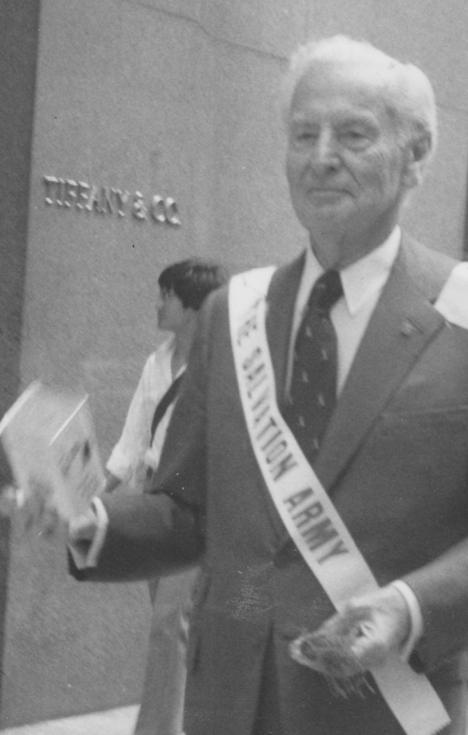 at tiffany's